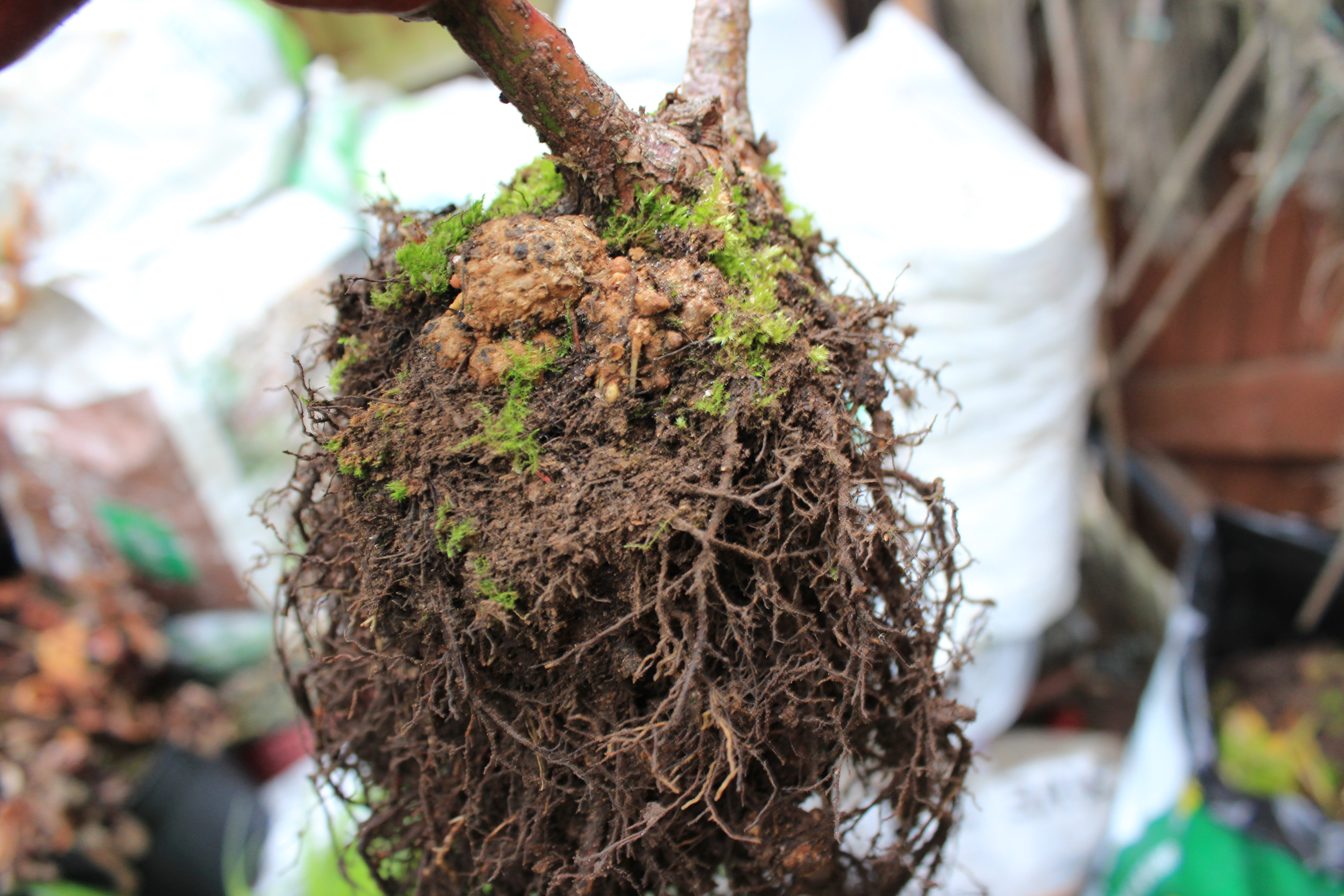 Crown gall (Agrobacterium tumefaciens) on a cultivated rose (Rosa). The rose was grown in a pot on its own roots (not budded on a rootstock).